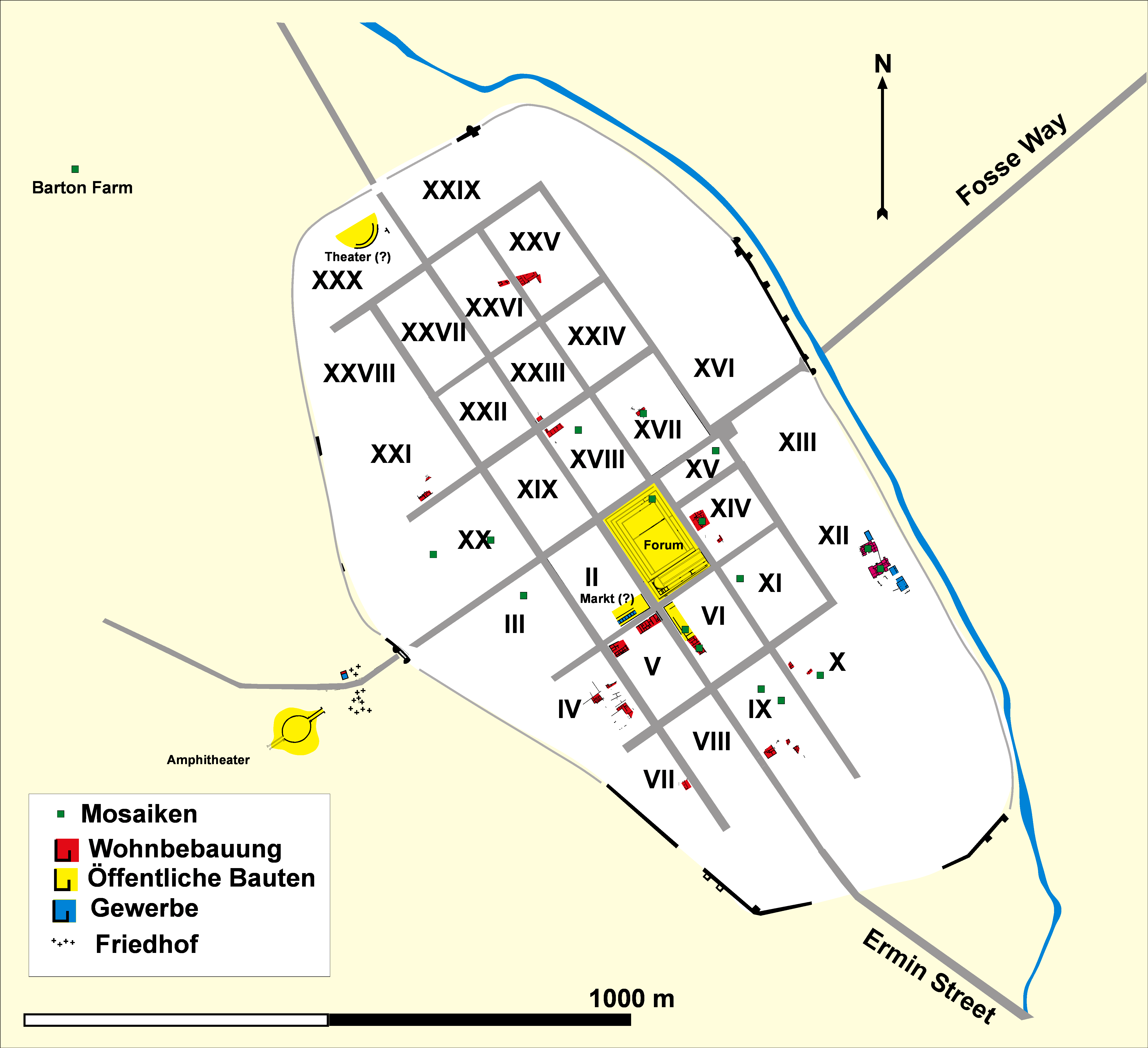 Archaeological map of Roman Cirencester: Corinium Dobunnorum